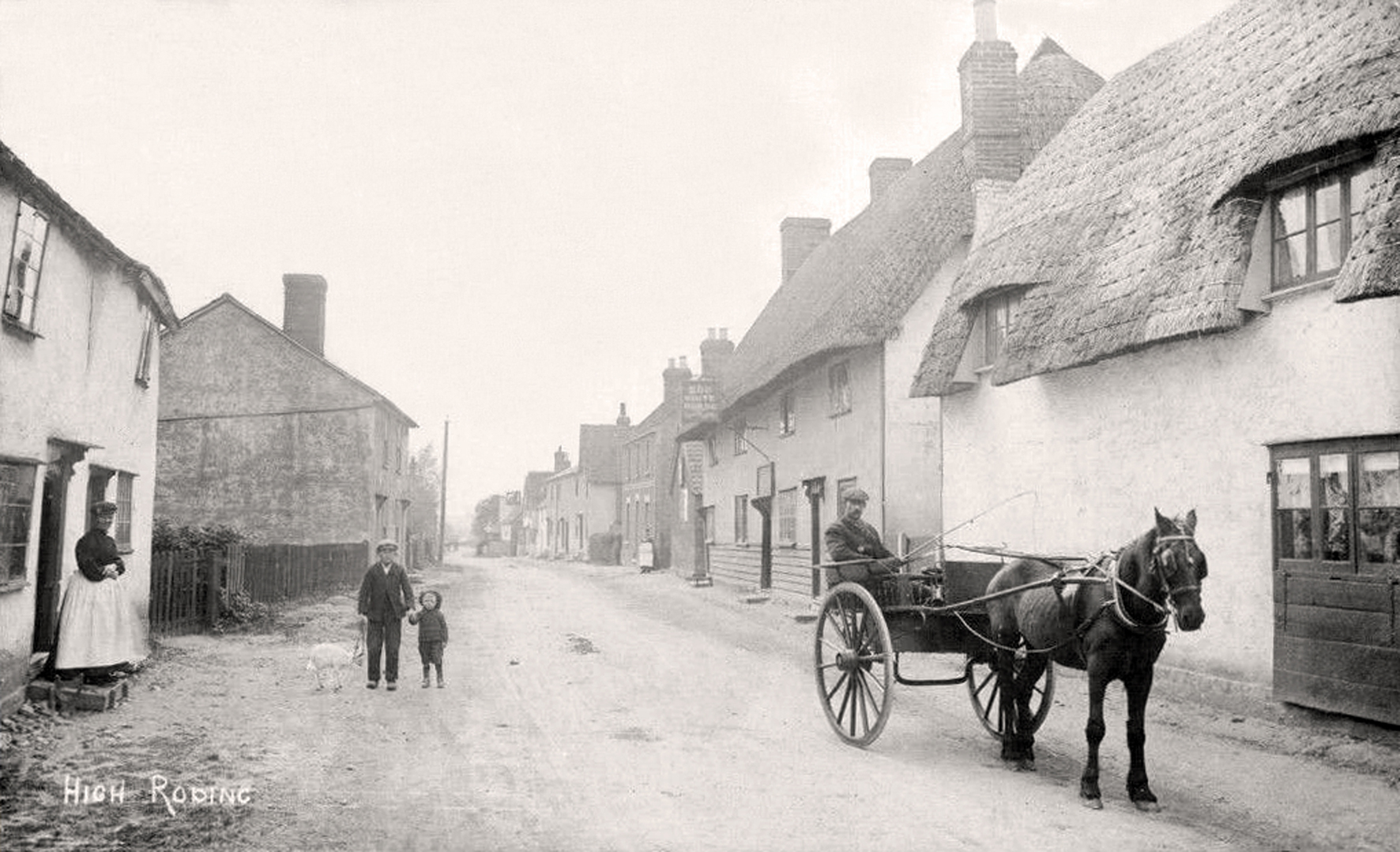 Postcard of The Street in High Roding, Essex, England. Publish date 1908 per date stamp or before. The thatched house (today tile-roofed), with pub sign, second on right, is now one residential building, the sign and door underneath no more.